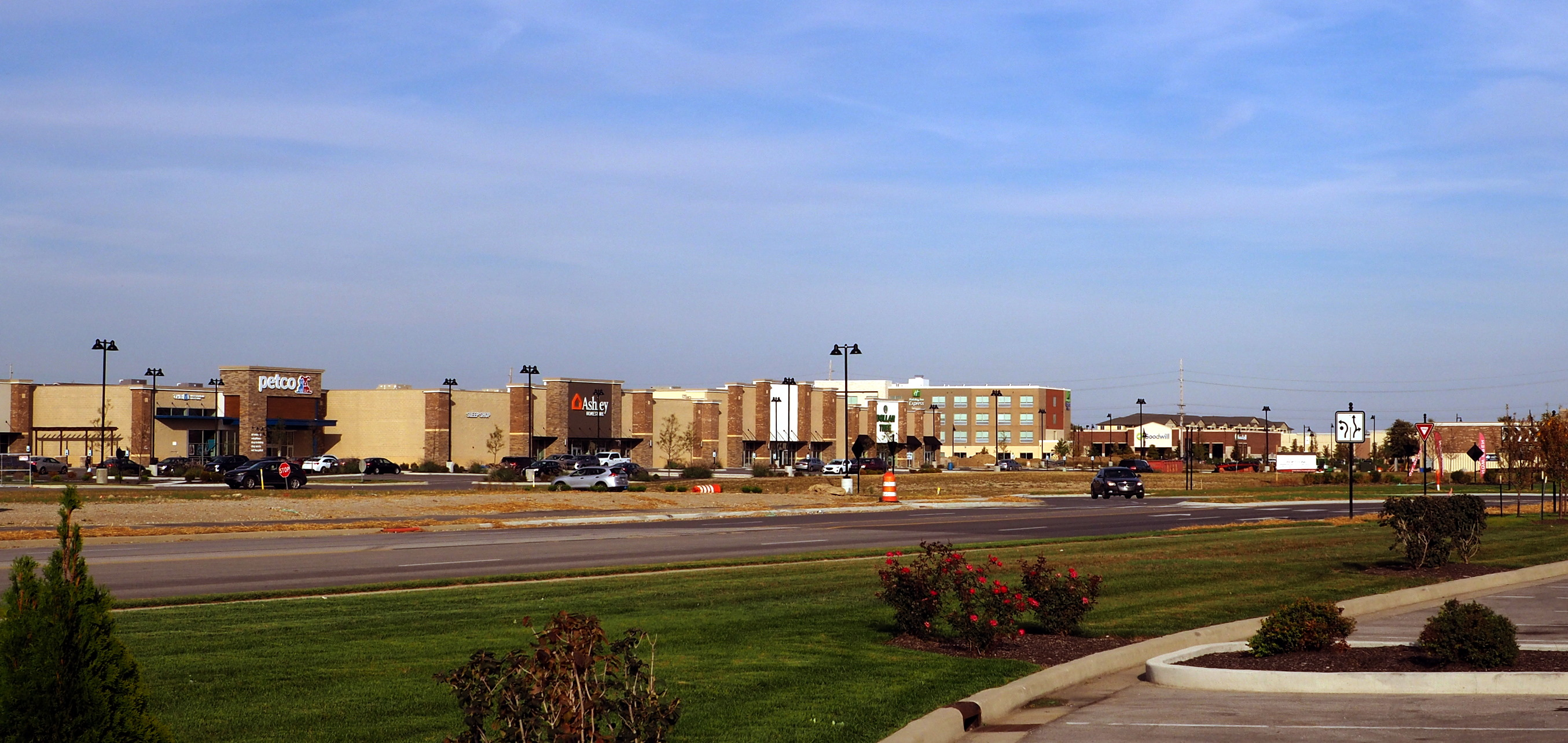 Retailers at Anson, a mixed-use development in Whitestown, Boone County, Indiana.